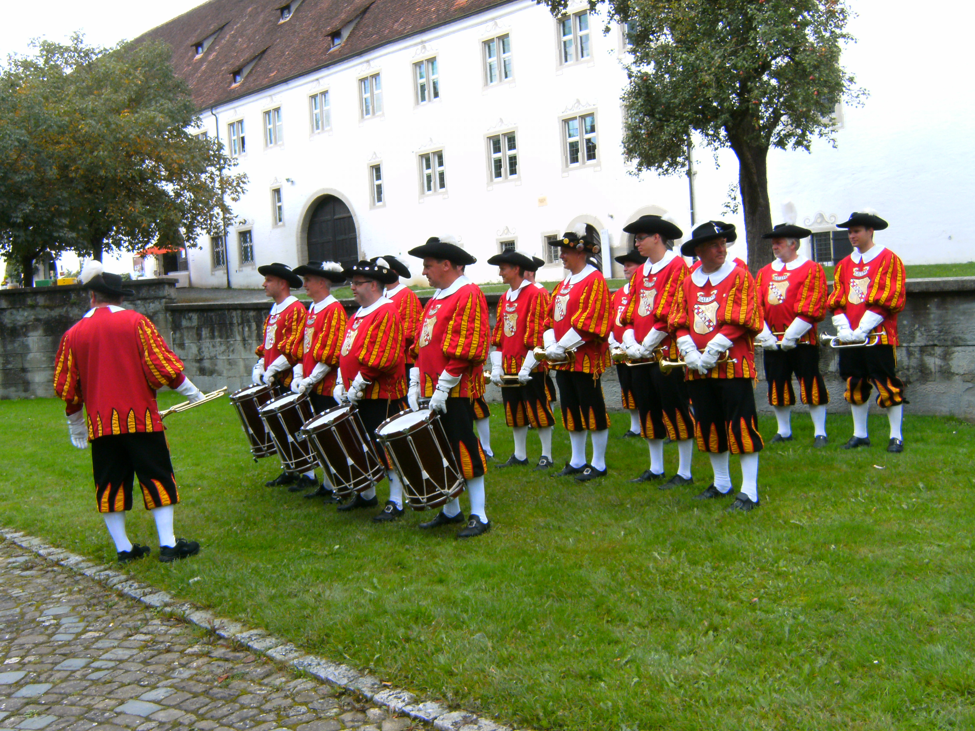 Salem, Baden-Württemberg. Ceremonial trumpet group Salem (Fanfarenzug Salem) in monastery and palace Salem (Baden) at the day of open door on September, 14 2014.